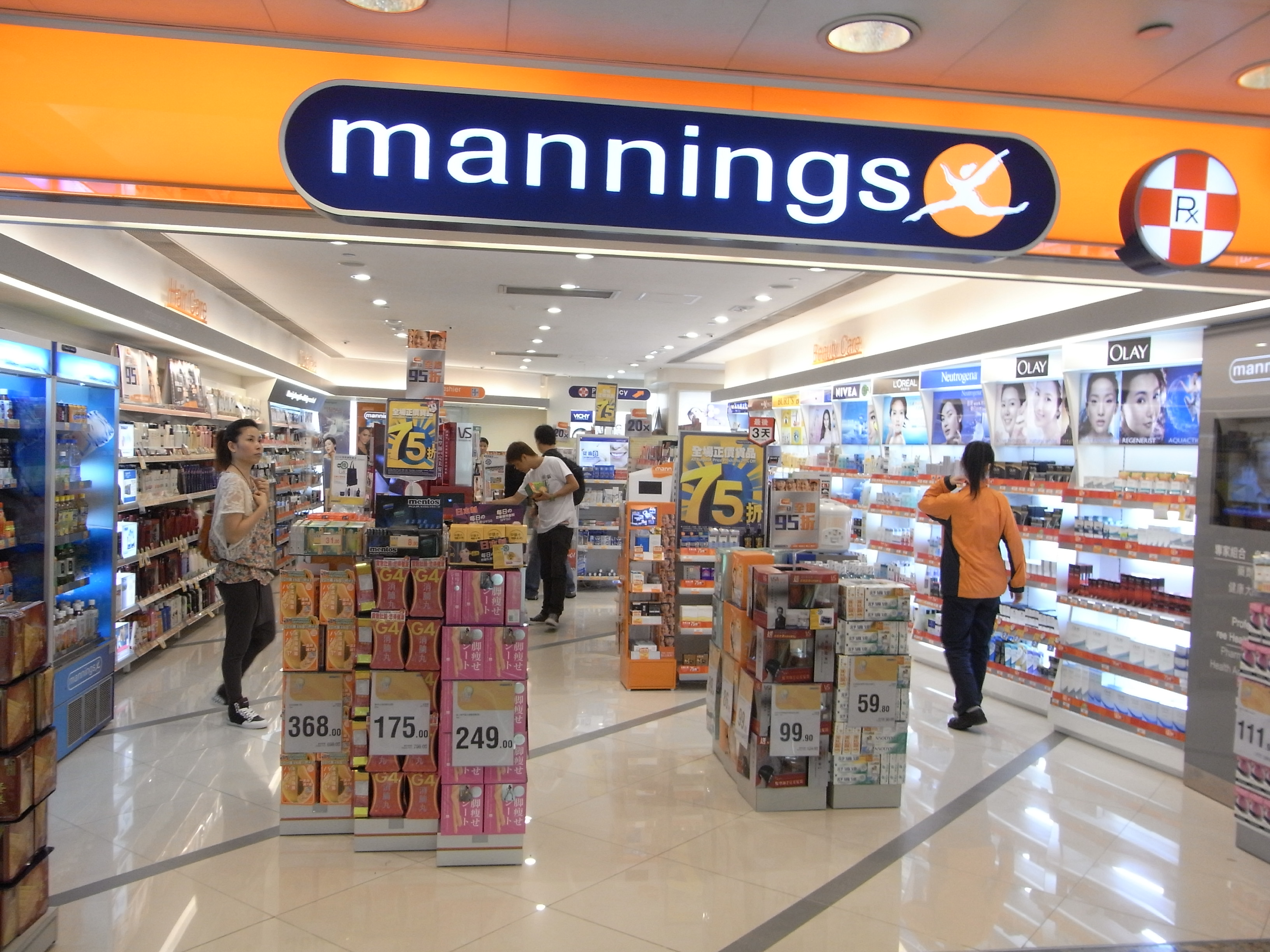 金鐘2010年7月 金鐘廊 萬寧 (公司)